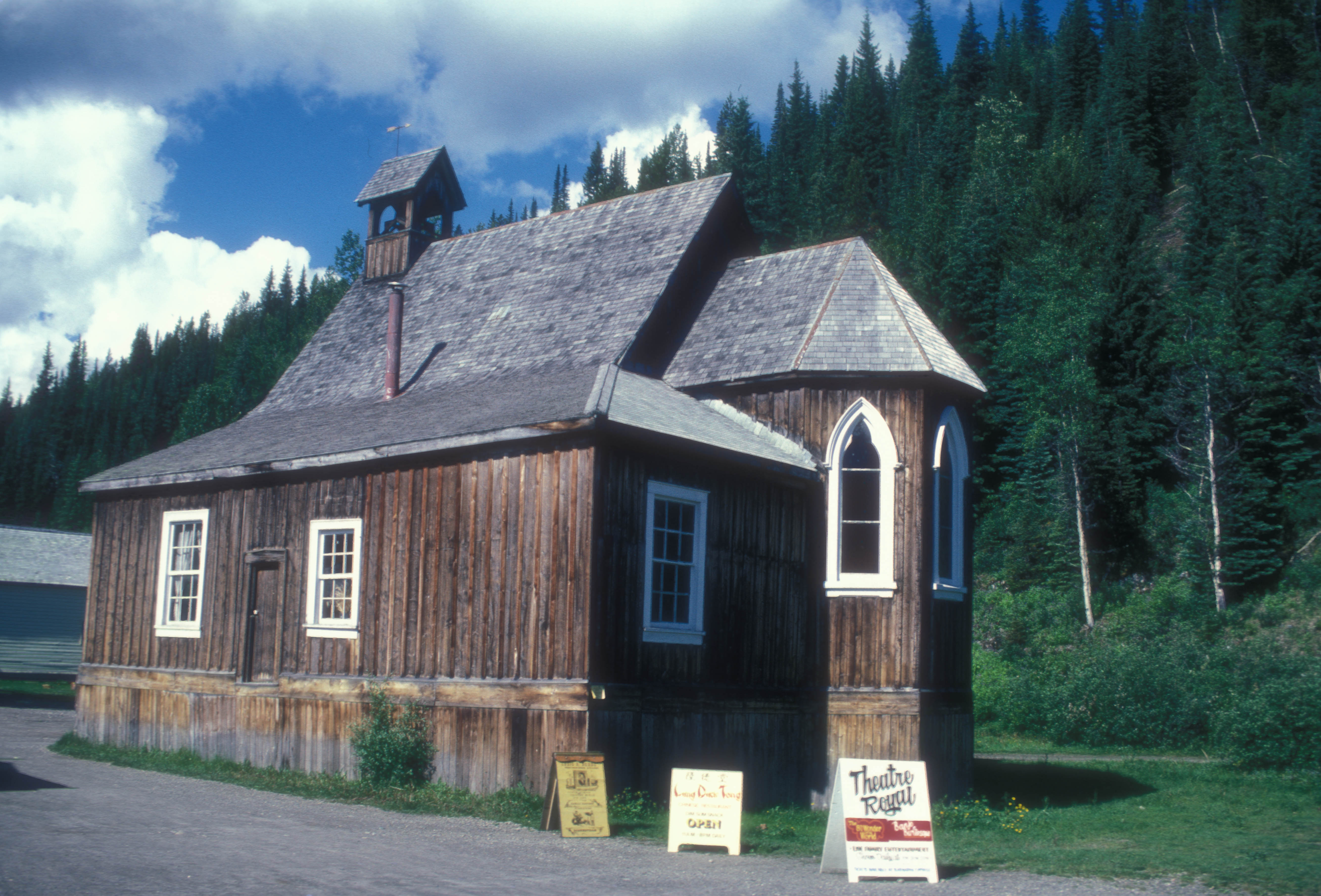 ST. SAVIOUR'S ANGLICAN CHURCH IS AN HISTORIC ONE-STOREY RUSTIC CARPENTER GOTHIC ANGLICAN CHURCH BUILDING LOCATED IN THE NATIONAL HISTORIC SITE OF BARKERVILLE, DESIGNED BY THE REV. JAMES REYNARD, IT WAS BUILT BY JOHN BRUCE AND J. G. MANN. CONSTRUCTION BEGAN IN 1868 BUT WAS NOT FINISHED UNTIL AFTER THE CHURCH'S FIRST SERVICE WAS HELD ON SEPTEMBER 18, 1870.